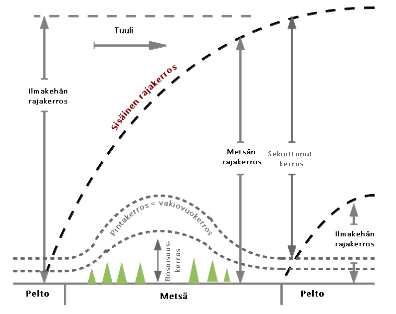 The structure of an internal boundary layer within the atmospheric boundary layer. The airflow is from left to right and an internal boundary layer develops between a field and a forest and grows downwind.